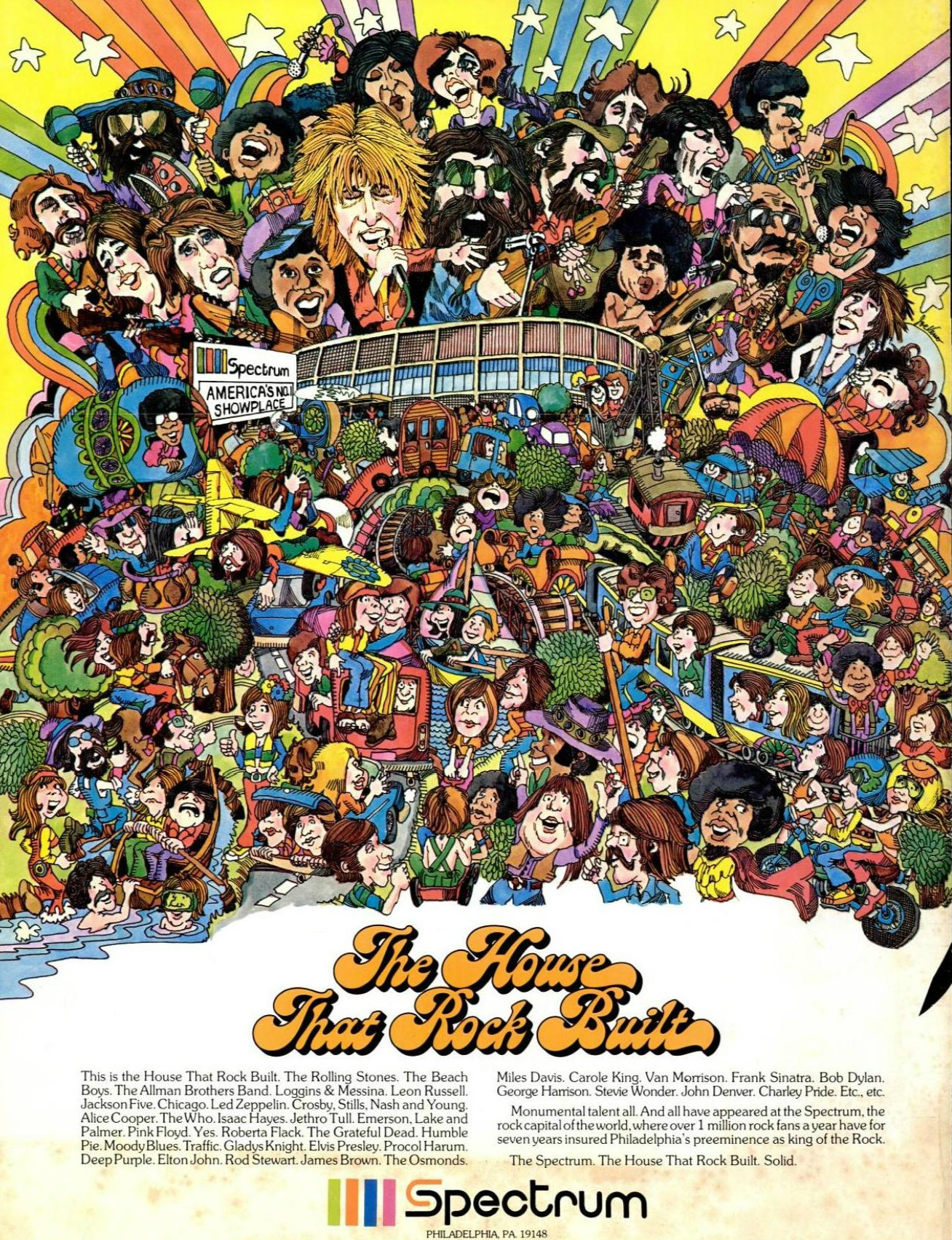 Advertisement for the Spectrum arena in Philadelphia Pennsylvania (no longer standing).